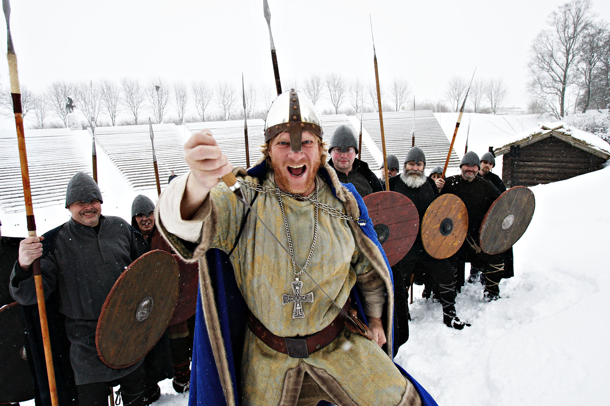 Norwegian actor Sven Nordin as king Olaf II of Norway in the The Saint Olav Drama at Stiklestad 2009